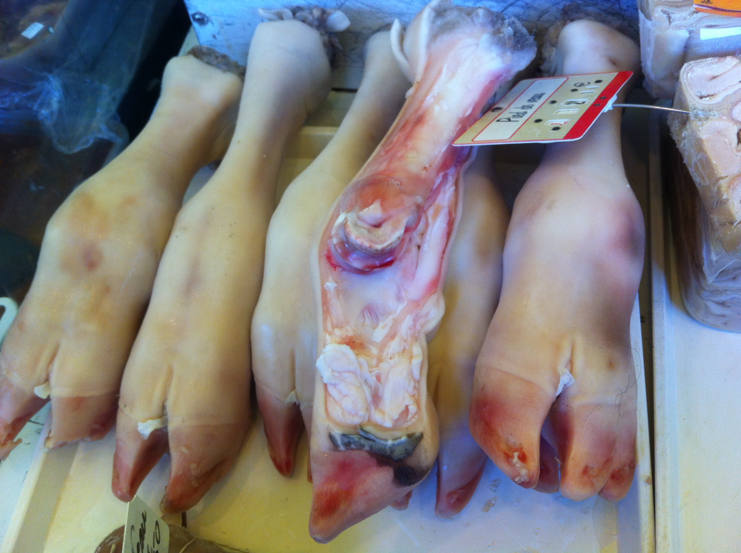 veal feet on the metal of a butcher shop, Paris